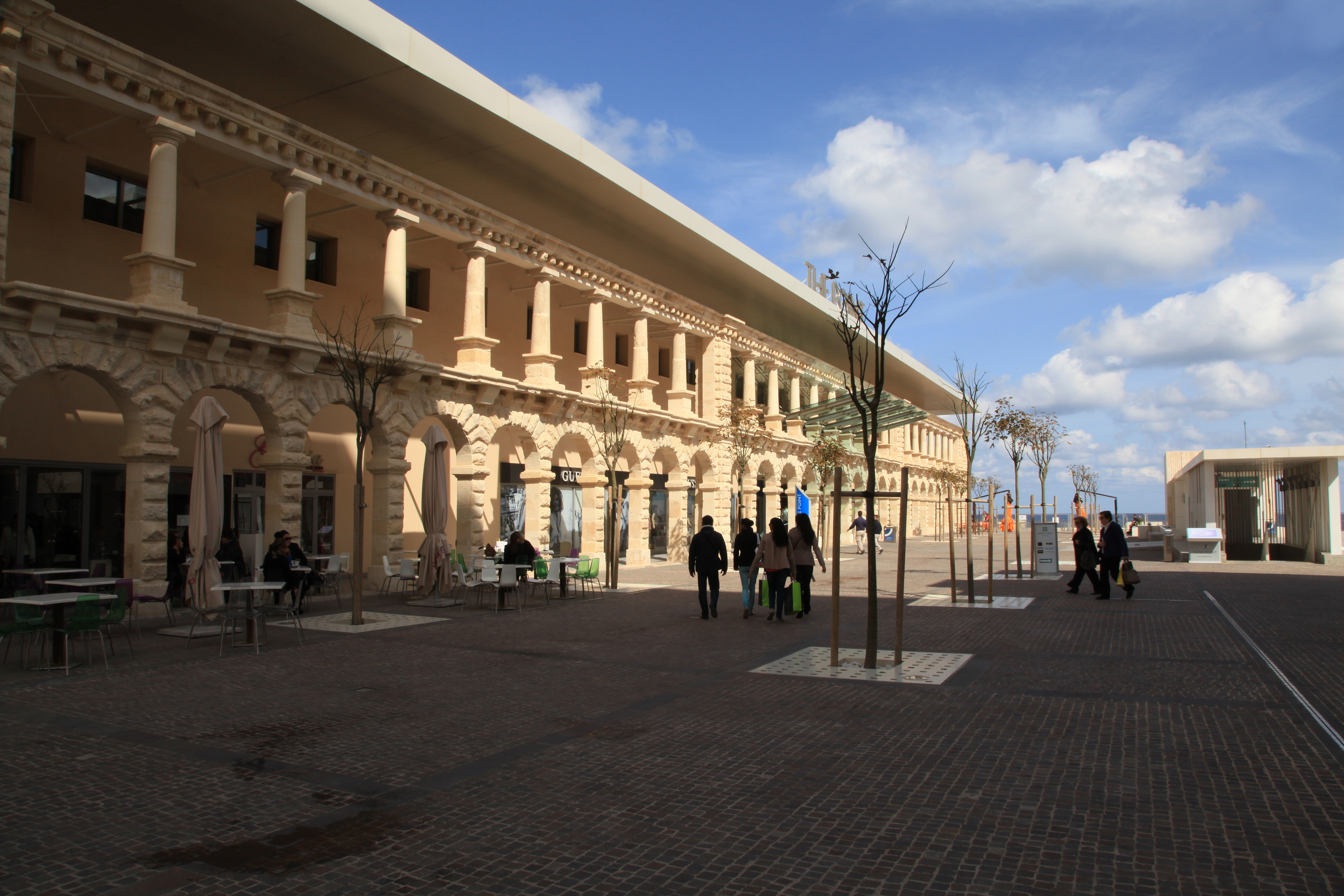 Pjazza Tigné in front of The Point, Tigné Point in Sliema, Malta